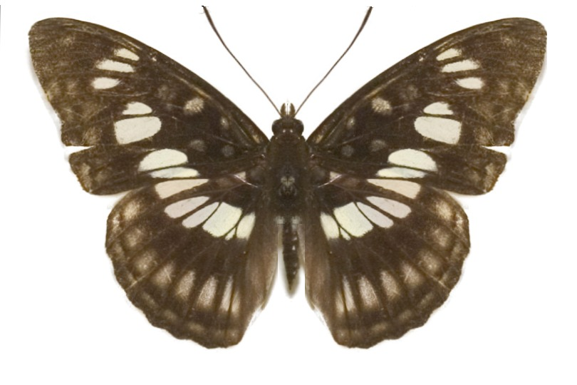 Athyma ranga reconstructed image